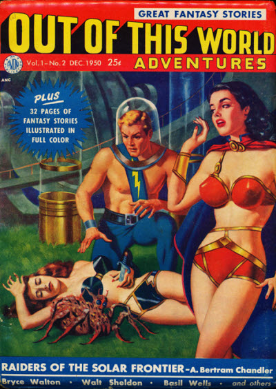 Cover of the December 1950 issue of Out of This World Adventures. Artist is unknown.